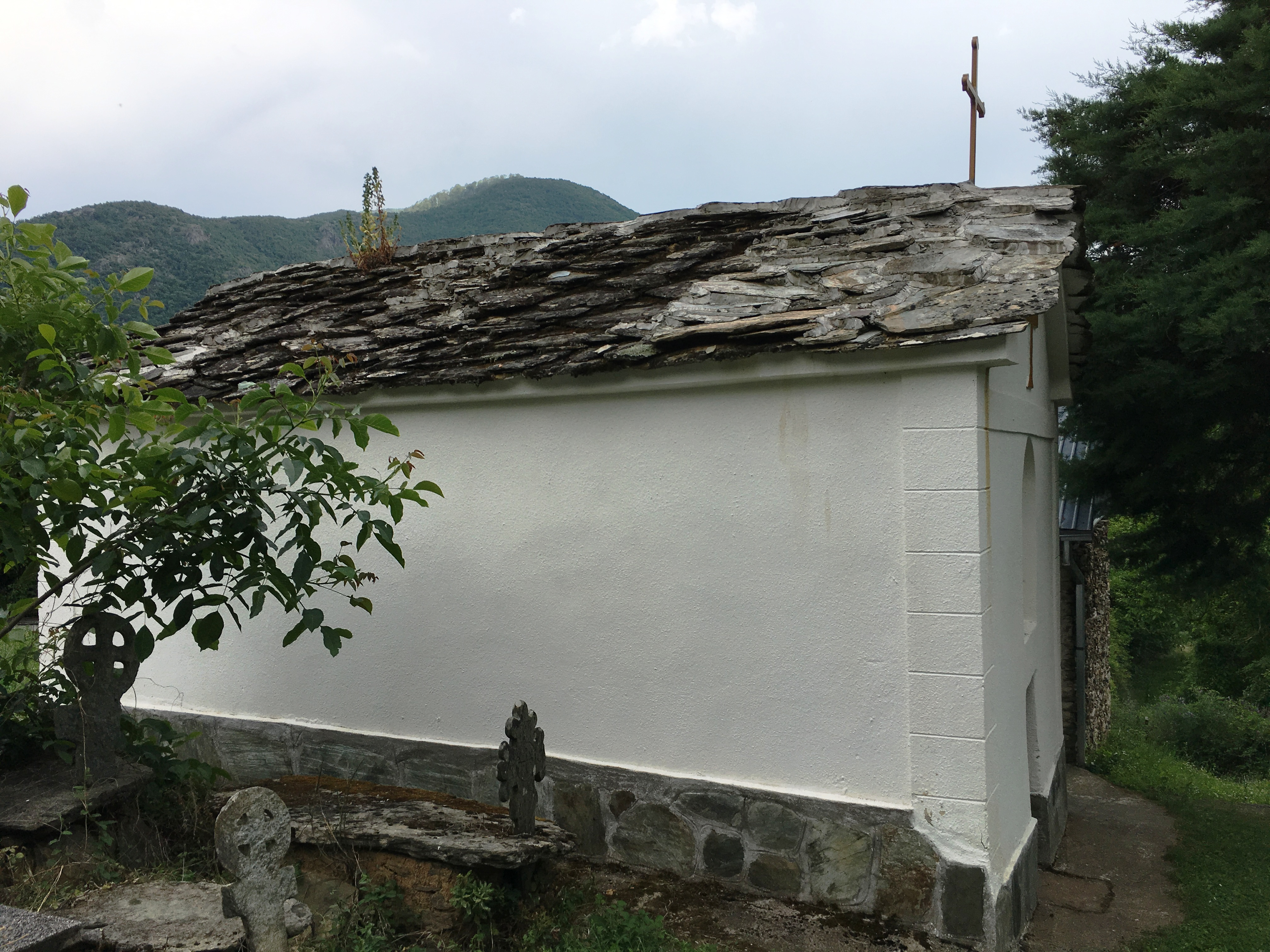 Gabriel the Archangel Church in the village of Oreovec